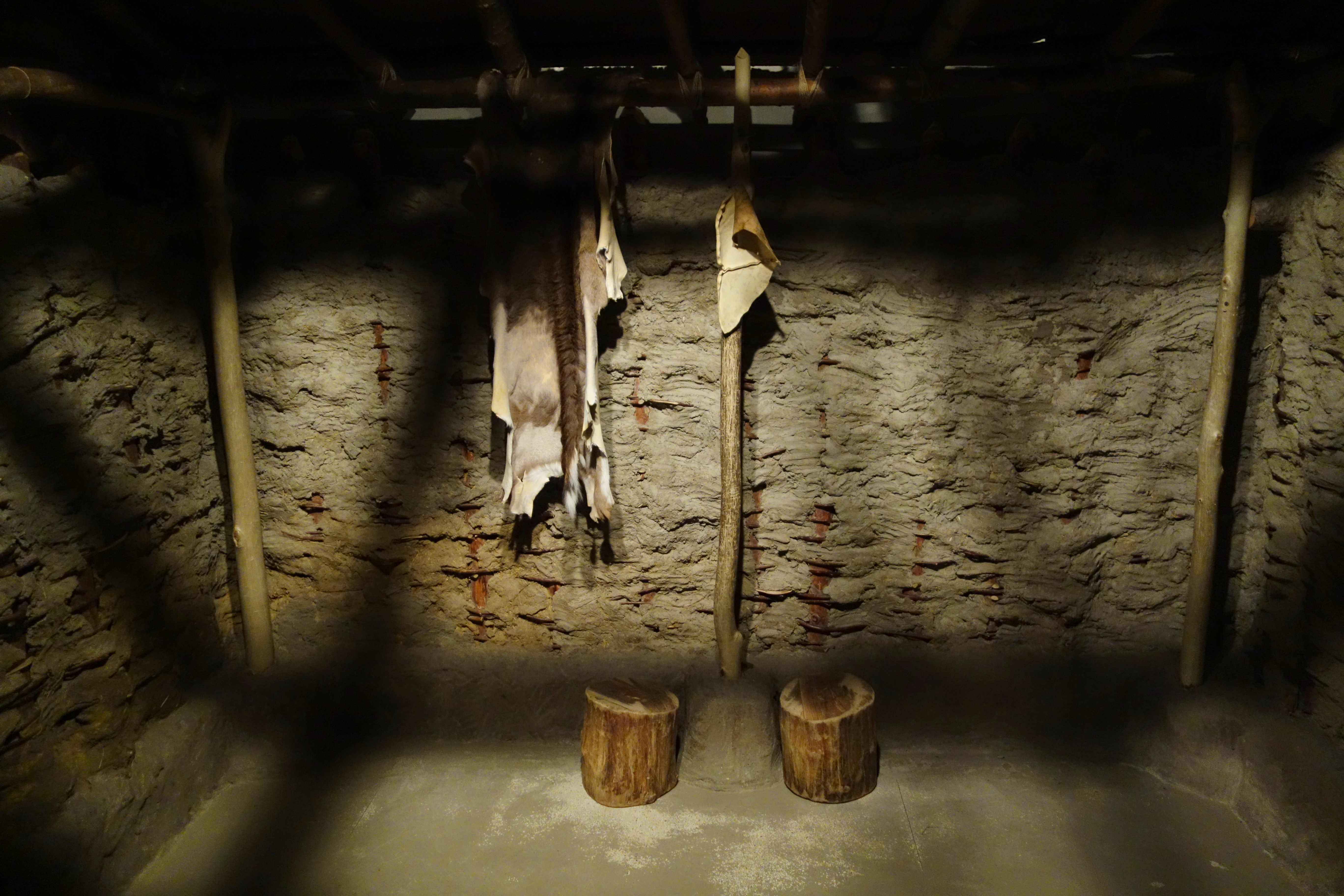 Replica of house built over 1000 years ago and discovered at Aztalan on the Crawfish River. Exhibit in the Wisconsin Historical Museum, Madison, Wisconsin, USA. This item is old enough so that it is in the public domain.